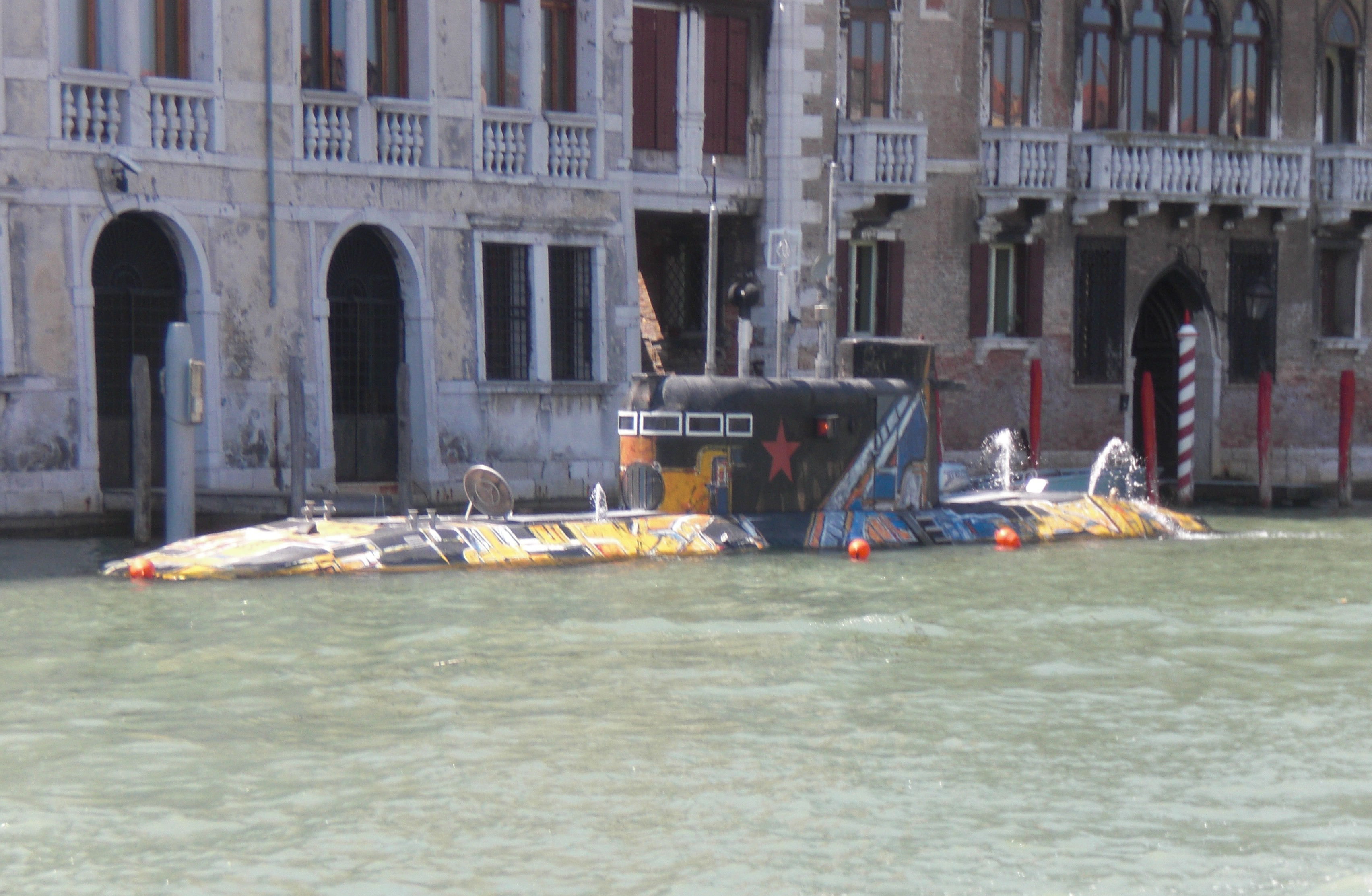 Biennale Venice 2009, Submarine, Alexander Ponomarev